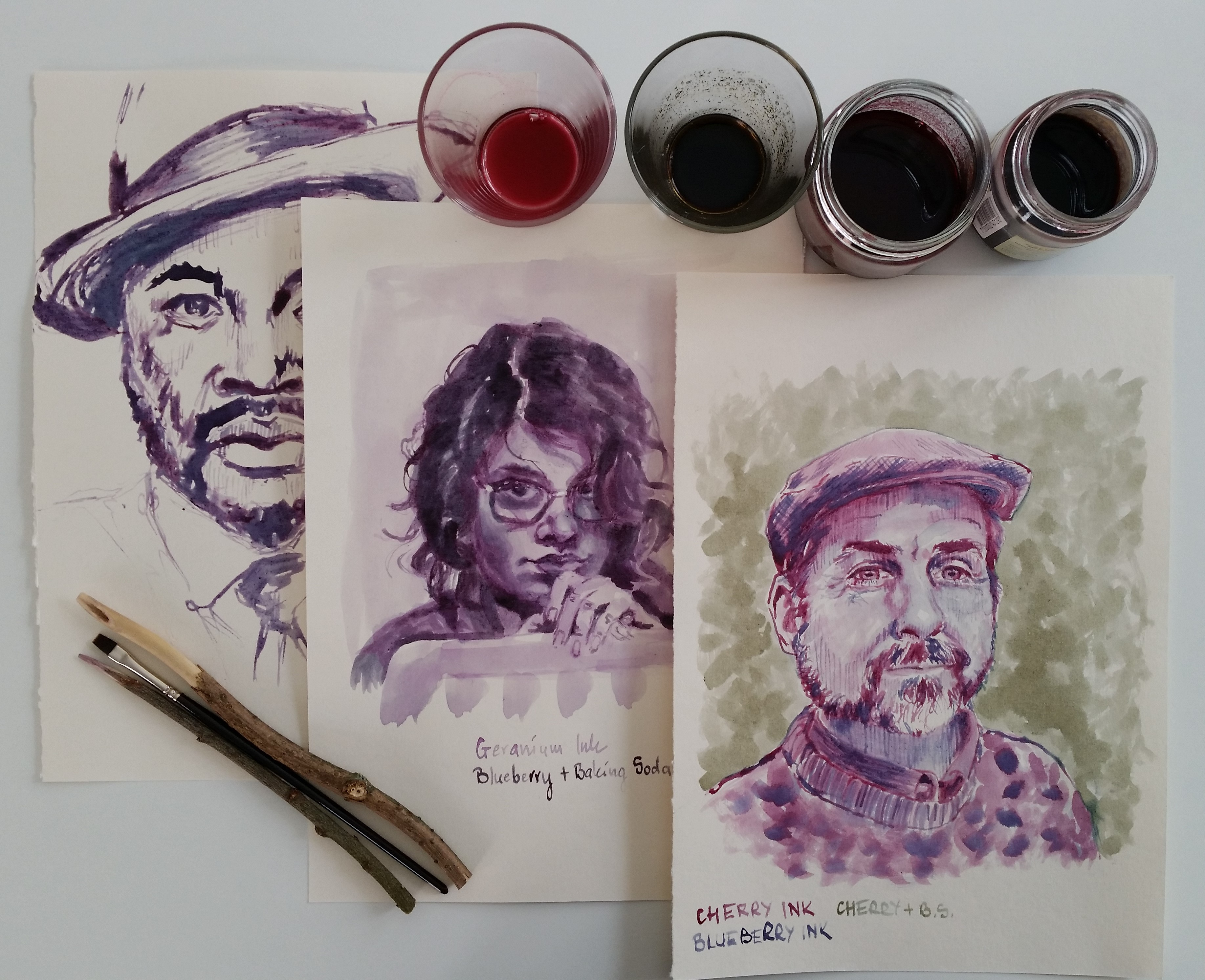 This picture shows drawings made with art supplies straight from the nature: twigs and natural self-made inks